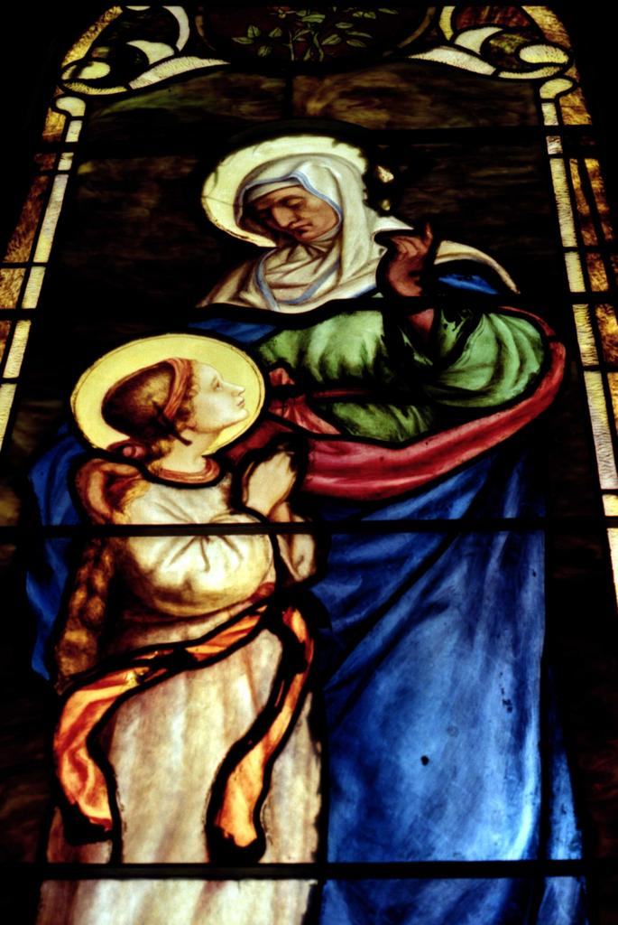 San Albino Church, Mesilla Village, Las Cruces, New Mexico (January, 1985). Photo by Peter Rimar.